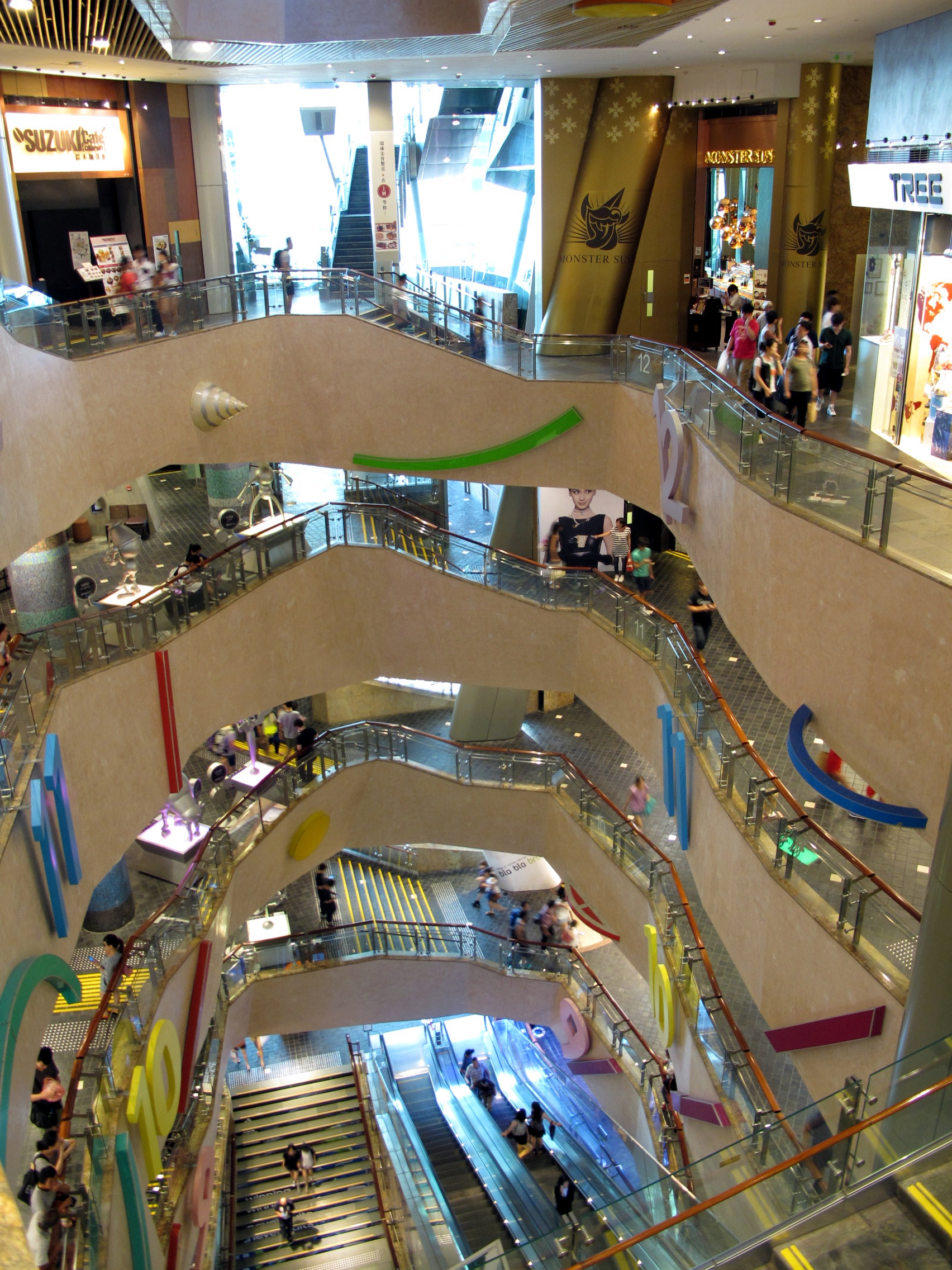 Langham Place The Spiral